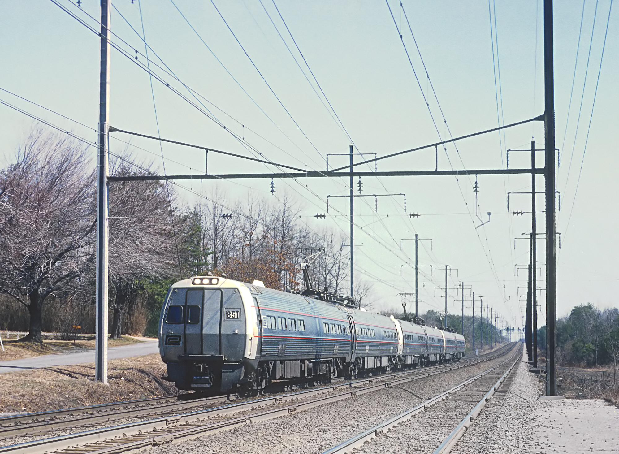 A Metroliner train led by #851 at Glenn Dale, Maryland in March 1969. Remains of the Glenn Dale station platforms - possibly already abandoned by that time - are visible in the bottom corners.